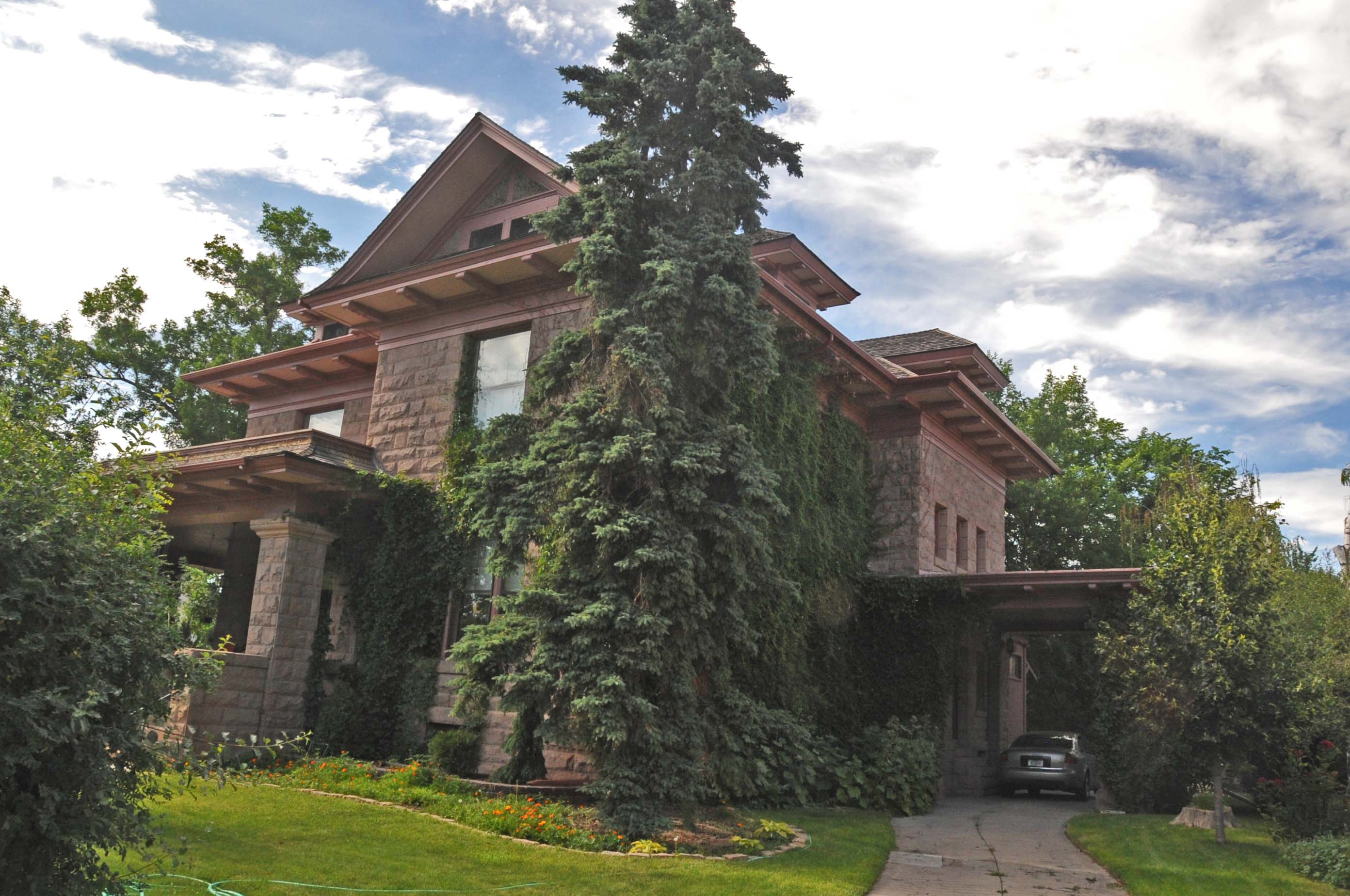 THE LEE M. FORD HOUSE WAS CONSTRUCTED IN 1908 BY ROBERT S. FORD AS A WEDDING PRESENT TO HIS SON LEE AND HIS BRIDE, RACHEL COUCH. ROBERT S. FORD, WHO ESTABLISHED THE GREAT FALLS NATIONAL BANK IN 1891, WAS ALSO A PROMINENT AREA STOCKMAN.